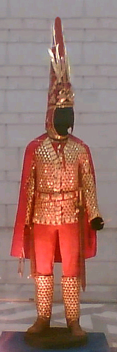 Issyk's Gold Cataphract Warrior (from Kazakhstan), a parade gold scale armour from Issyk's tomb of Sakas King